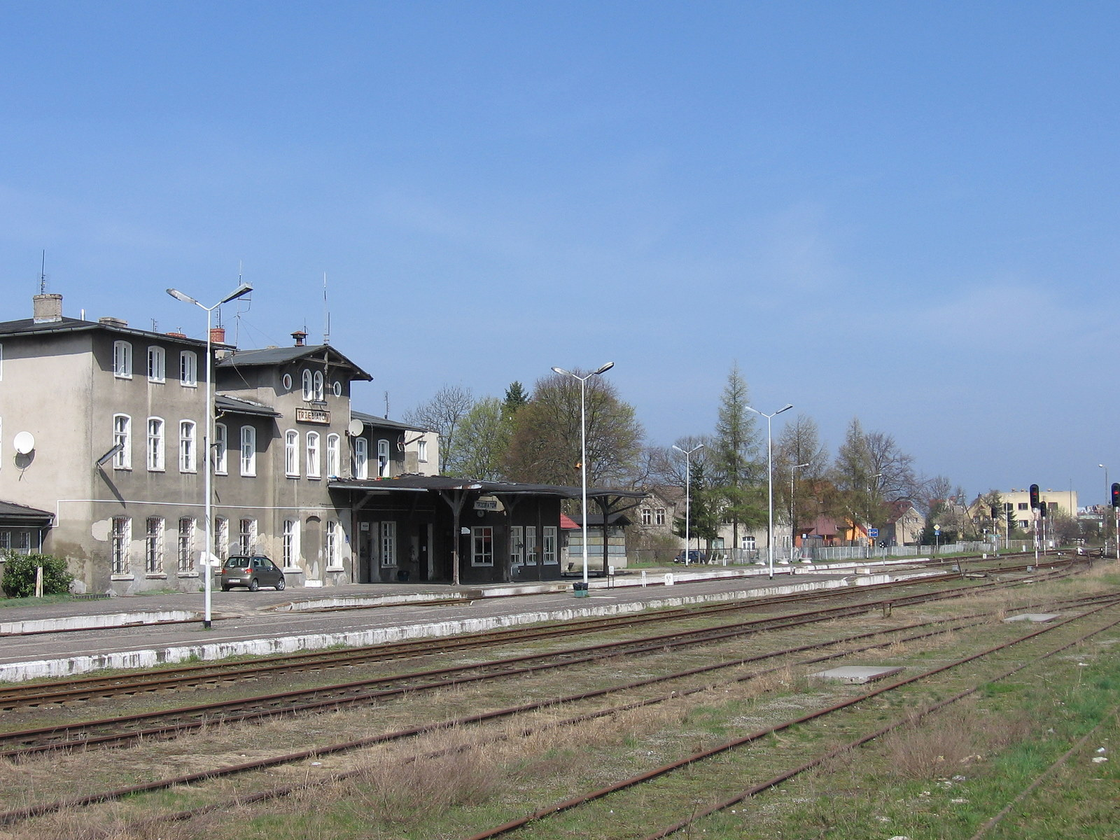 Train station in Trzebiatów, Poland